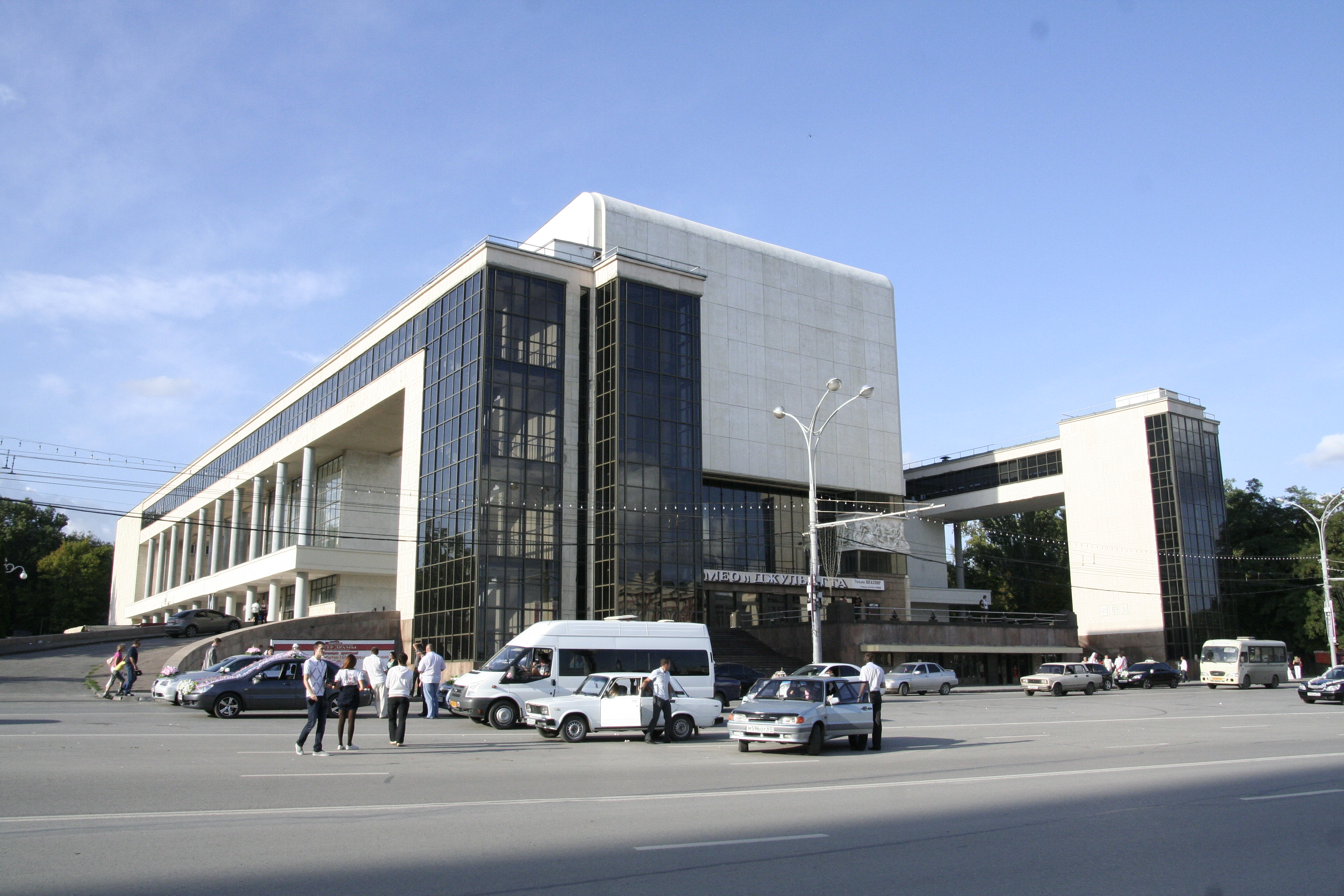 Rostov academic drama theatre named after M. Gorky